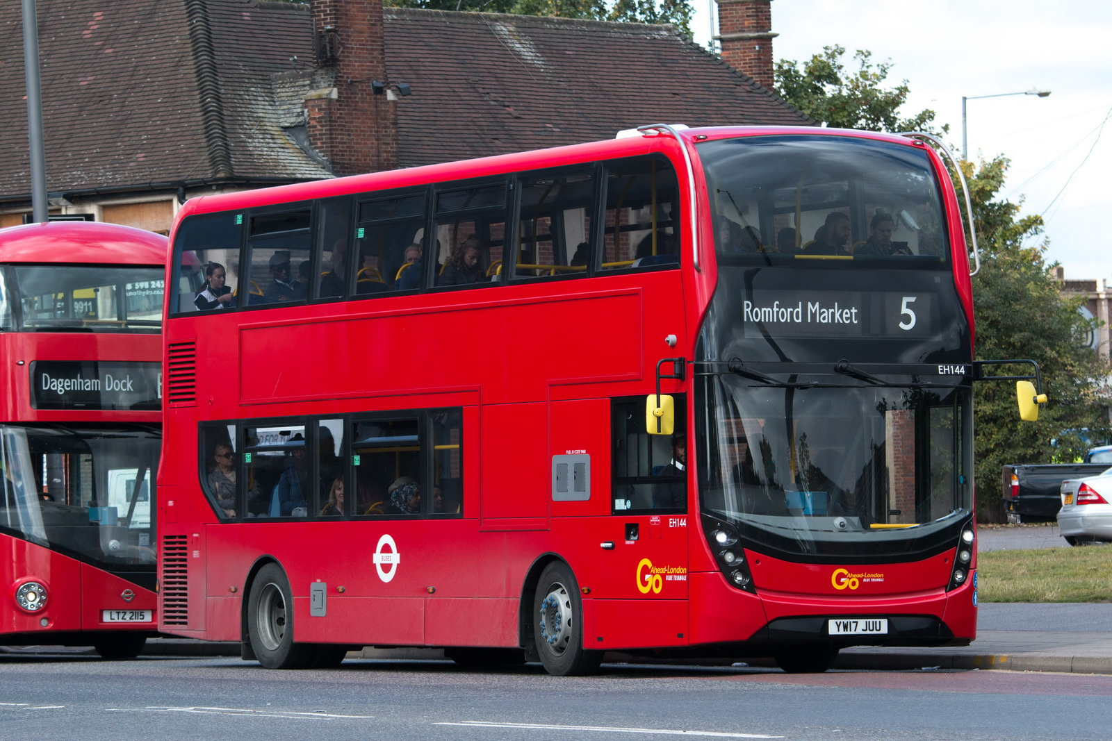 Blue Triangle Alexander Dennis Enviro400 MMC (YW17 JUU, EH144) in September 2017